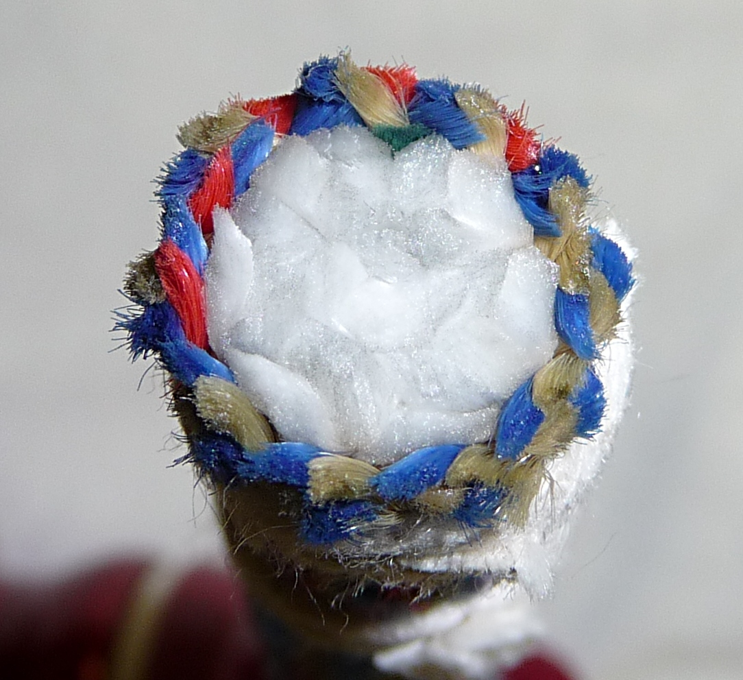 Freshly cut and bound end of 10.7mm dynamic kernmantle climbing rope. This nylon rope is composed of a 40 strand "two-over-two" braided sheath and a core made from seven 3-ply yarns with a single green tracer strand running parallel to the core yarns. Sample from trimmed end of a used climbing rope.